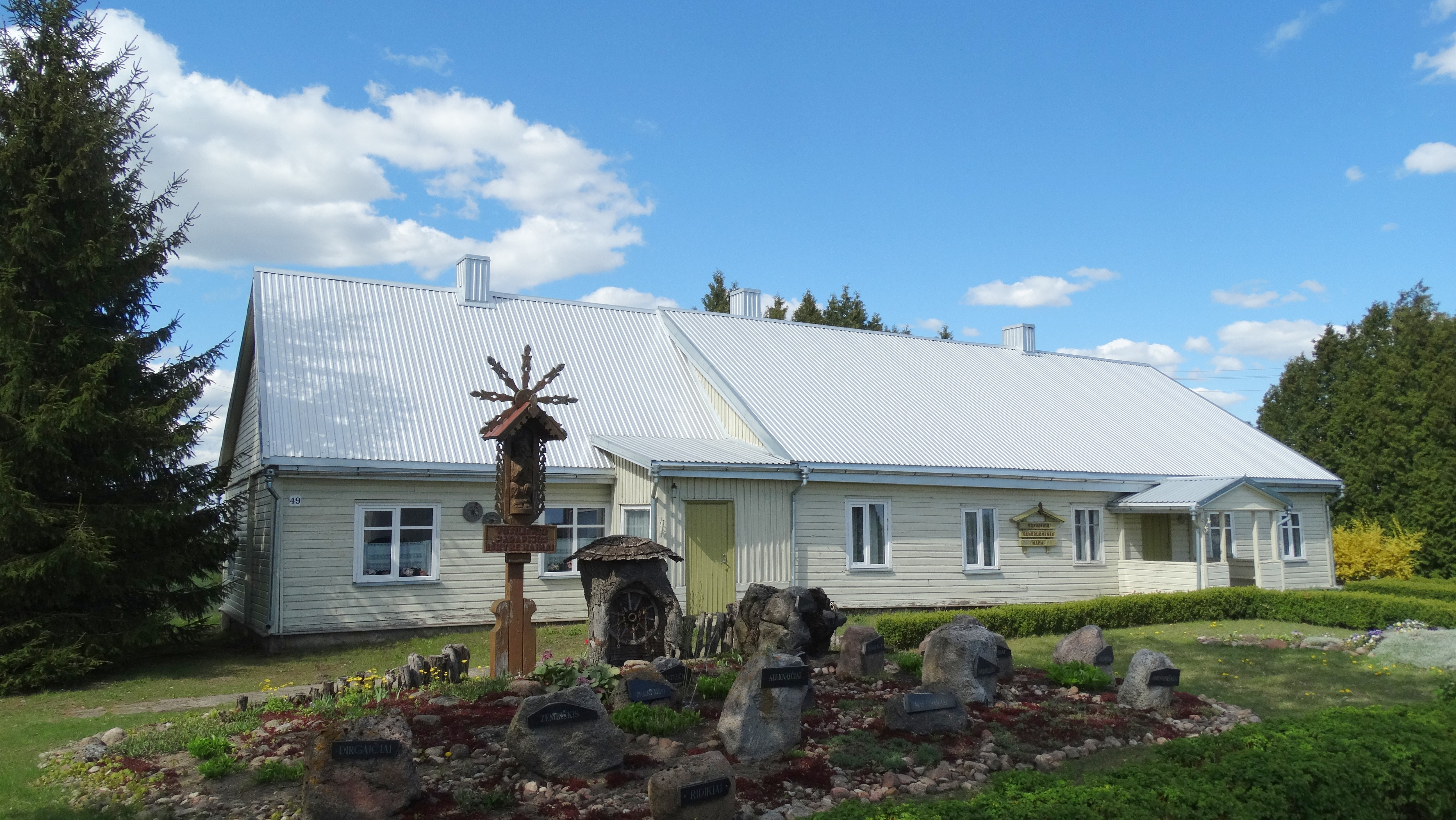 Vosiliškis, community house (former rectory), Raseiniai district, Lithuania